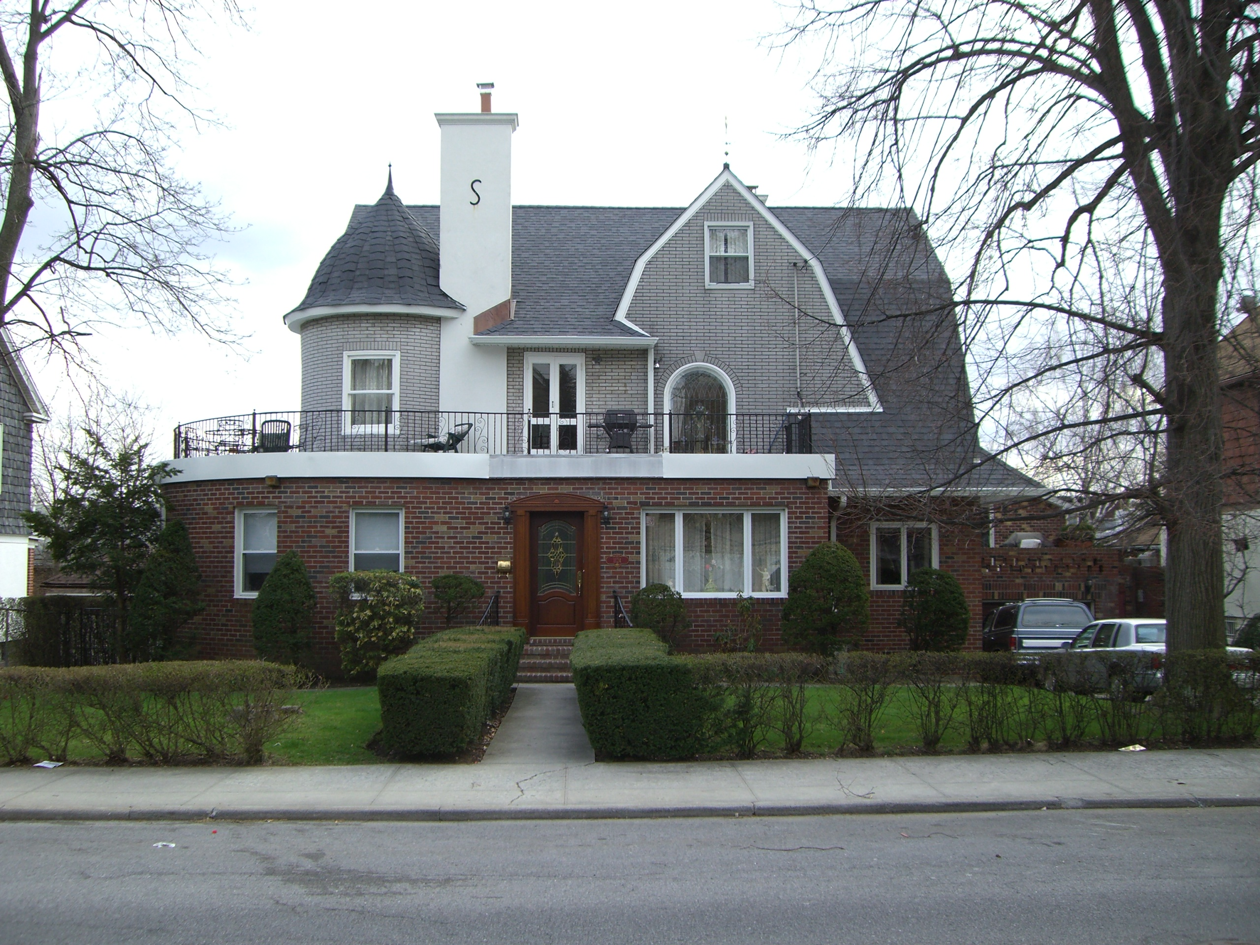 In 1898, Walter L. Johnson sold a 60×100 lot to Architect Constantine Schubert on the south side of 85th Street between Eleventh and Twelfth avenues for $2,400. The Brooklyn Eagle reported that Schubert’s home cost $7,000 to build. Today, the home retains the shape of Schubert’s design, however the first-floor wraparound porch has been enclosed in red brick and the remainder of the home is now clad in grey brick, covering the original wooden shingles. Notice the “S" on the chimney. - From the collections of the Dyker Heights Historical Society. user:cjz208, of the Dyker Heights Historical Society, is the copyright holder of this work, and has published or hereby publishes it under the following license